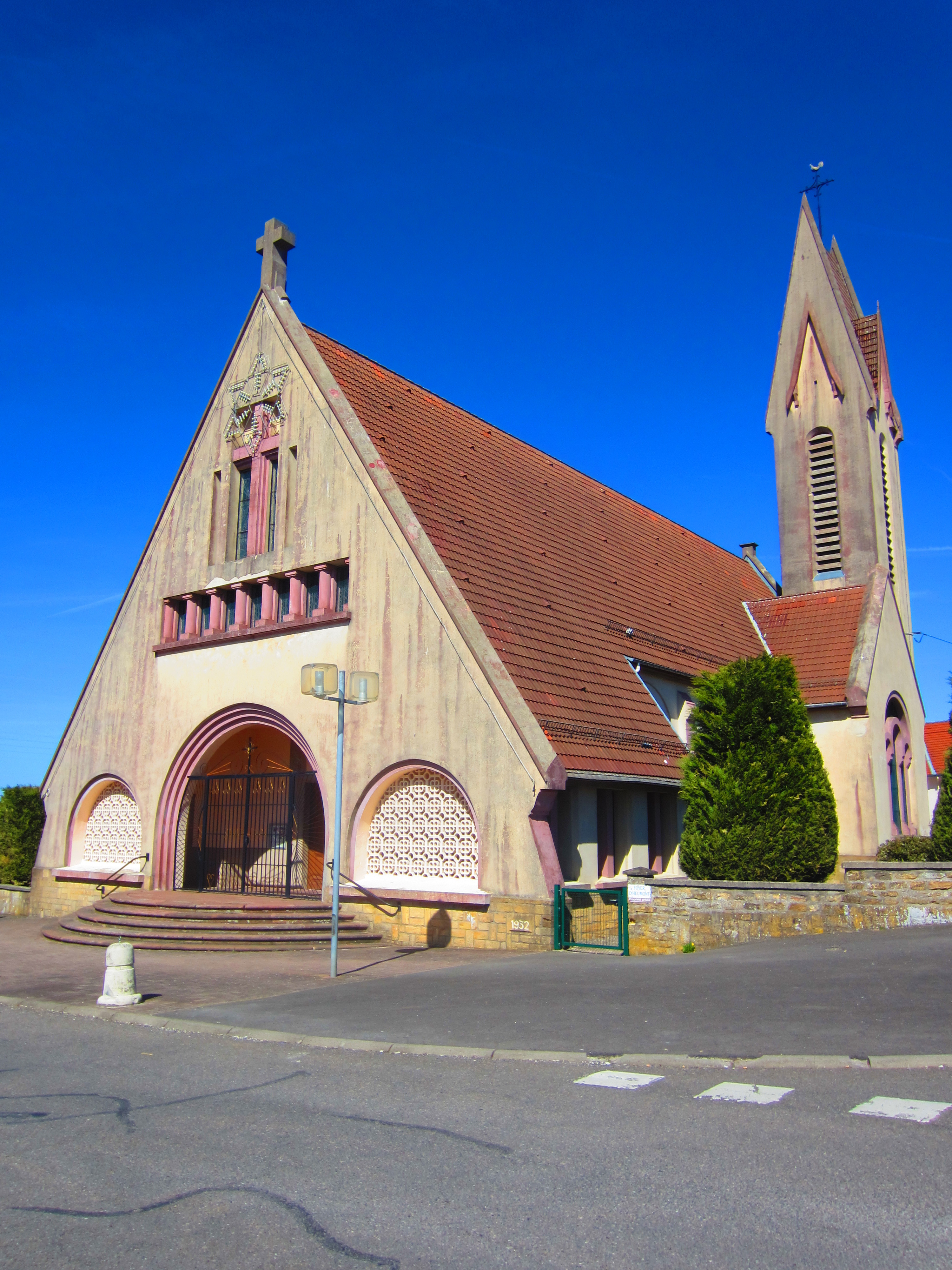 Heumont Rehon church